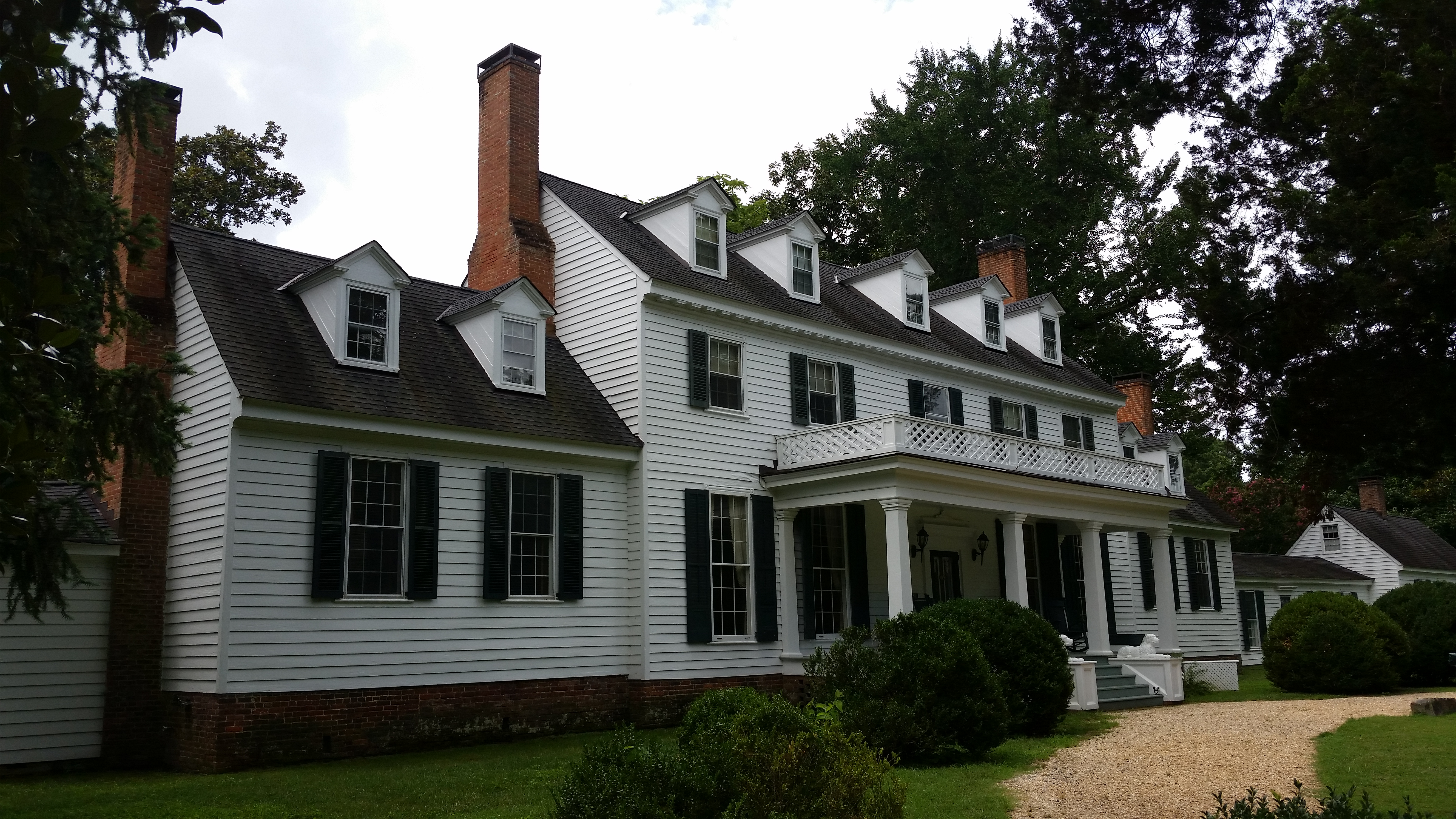 Sherwood Forest Plantation Big House